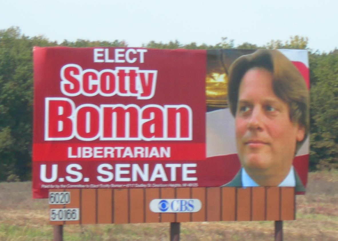 This is a photograph of a billboard used by 2008 Scotty Boman for United States Senate Campaign in Michigan. Taken in September of 2008 off I-96 between Grand Rapids and Lansing, Michigan.